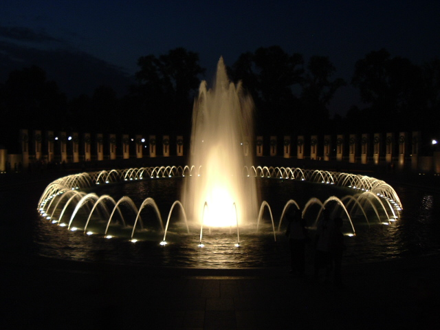 This is a picture taken at the World War Two Memorial at night. This is specificly a photo taken from a balcony above the fountians.